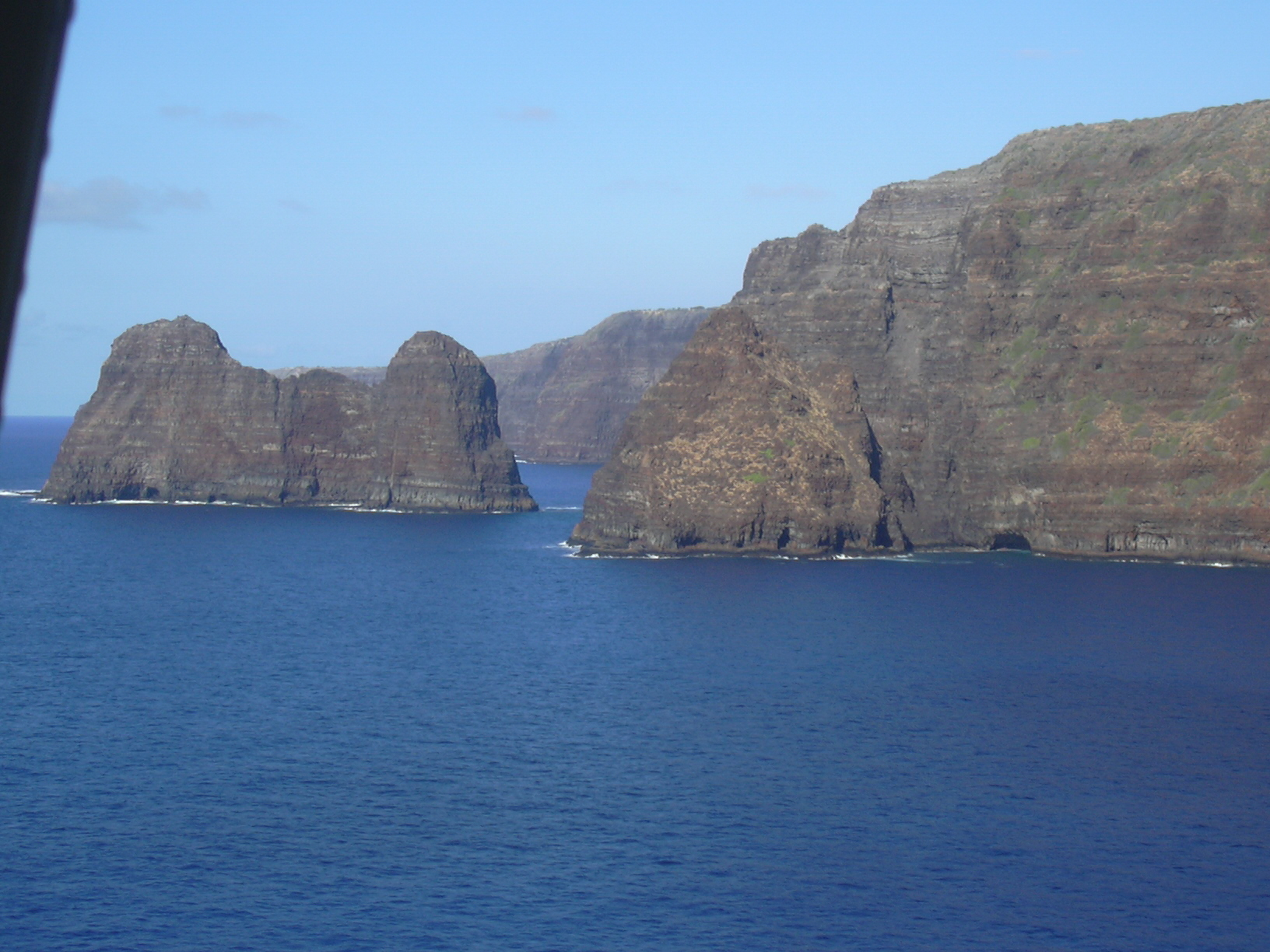 Chamaesyce celastroides (habitat). Location: Kahoolawe, Puu Koae